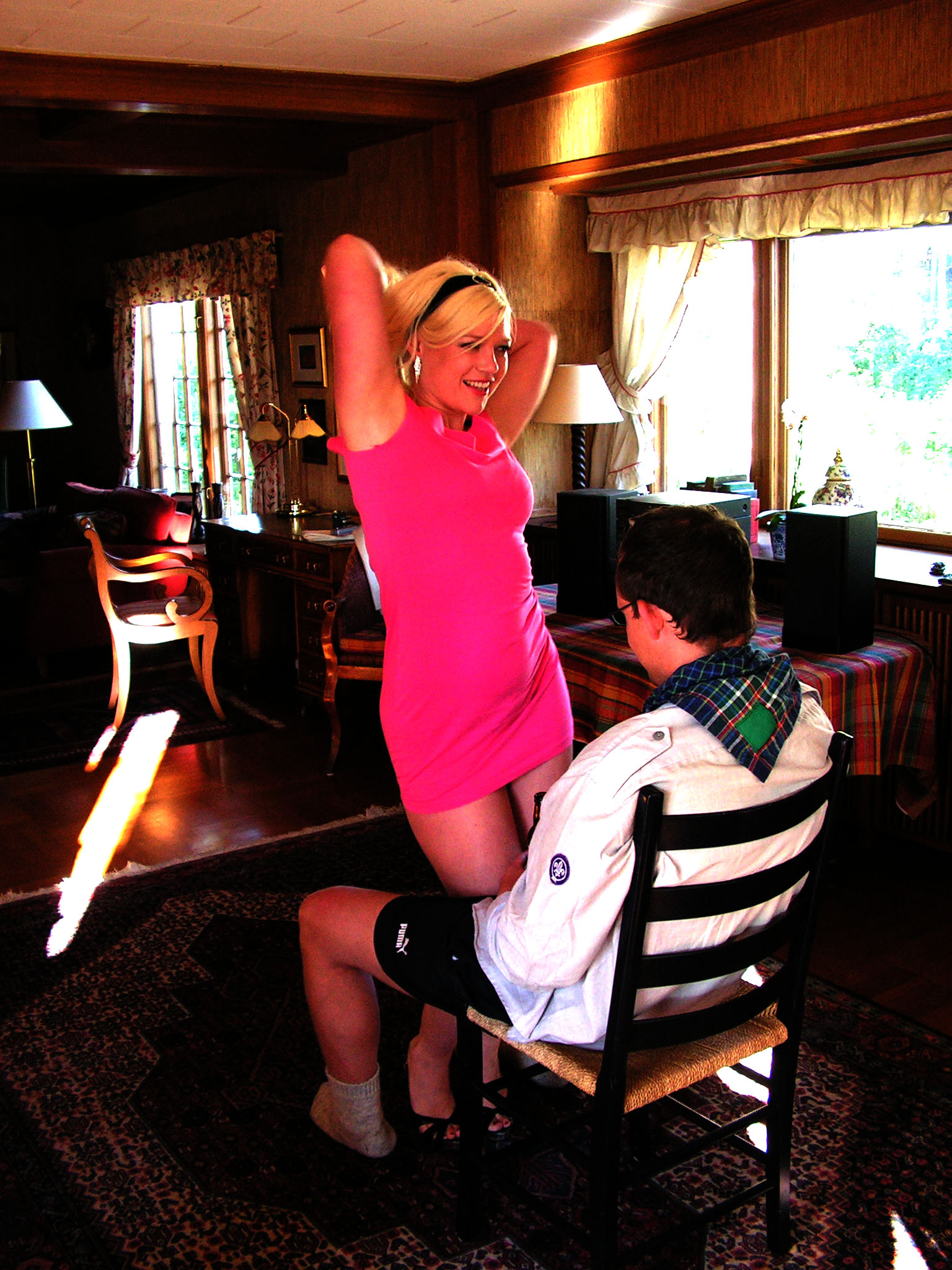 Stripper at Bachelor Party.